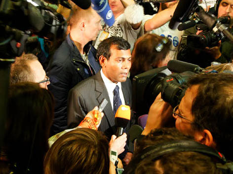 President Nasheed of the Maldives briefs reporters during the Copenhagen climate change talks